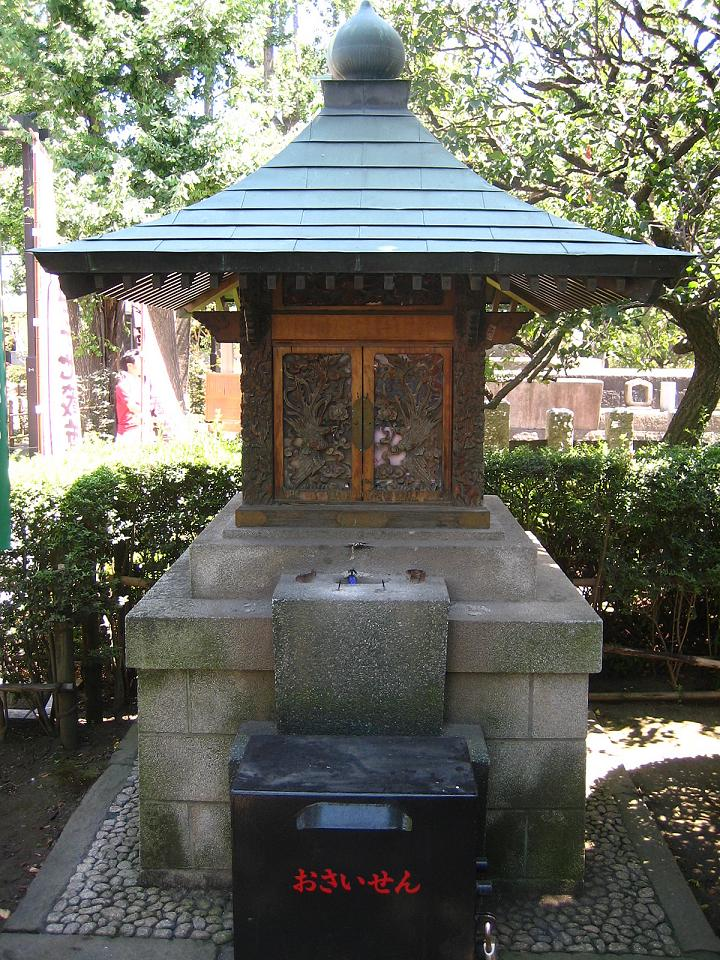 A picture of the Kume no Heinai-do shrine in the Asakusa district of the Taitō Ward in Tokyo, Japan. Image was taken with a Canon PowerShot SD450 Digital Elph camera and edited using a Paint Shop program on a laptop computer.